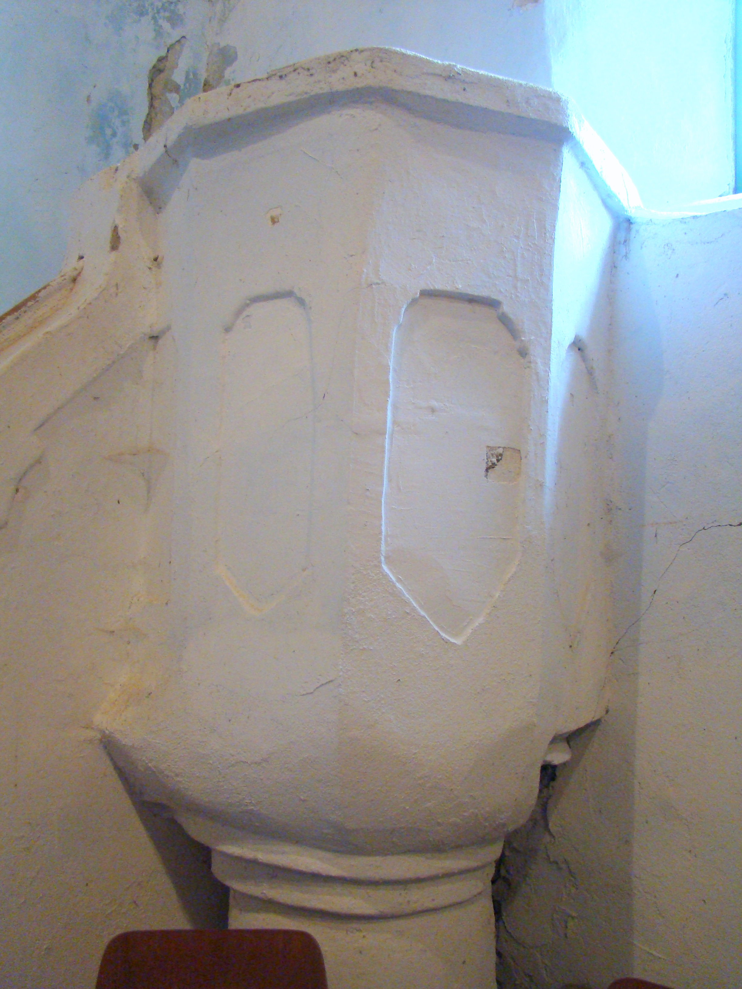 Lutheran church in Vulcan, Mureș county, Romania